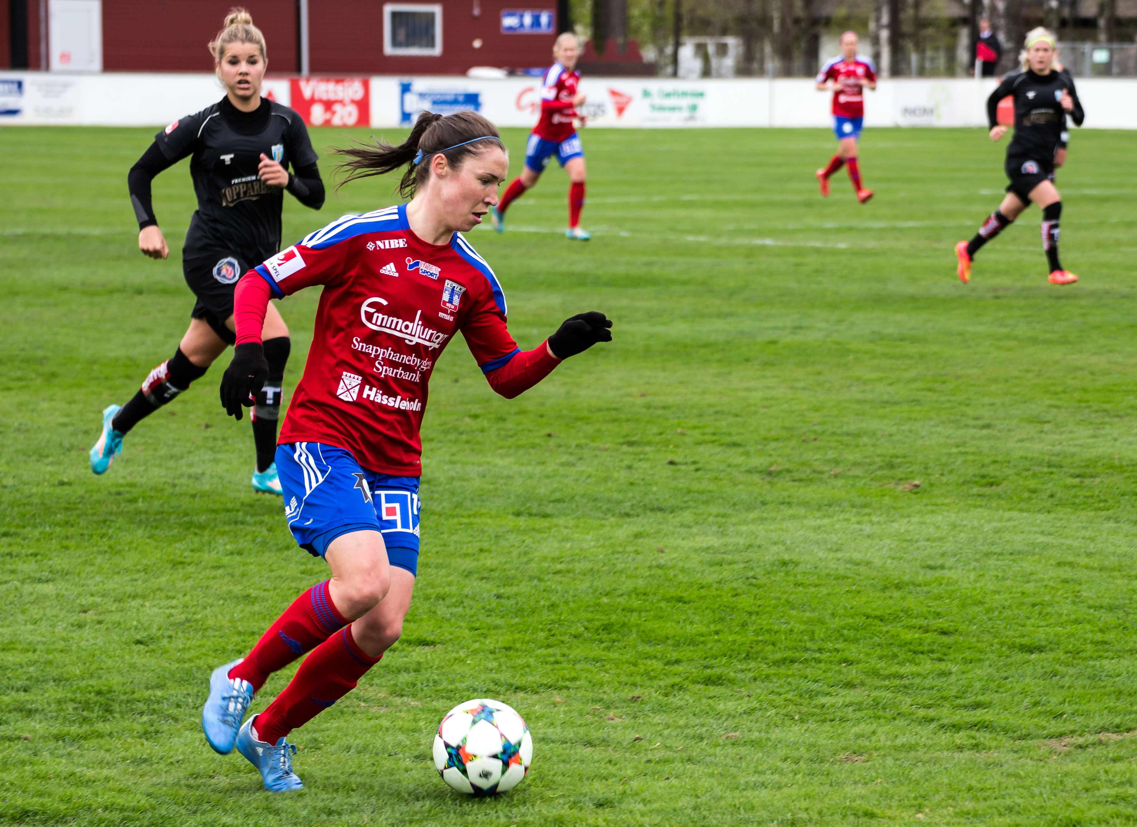 Scottish association football Player Jane Ross playing for Vittsjö GIK on home soil. Fotbollsspelaren Jane Ross från Skottland spelar hemmamatch för Vittsjö GIK.